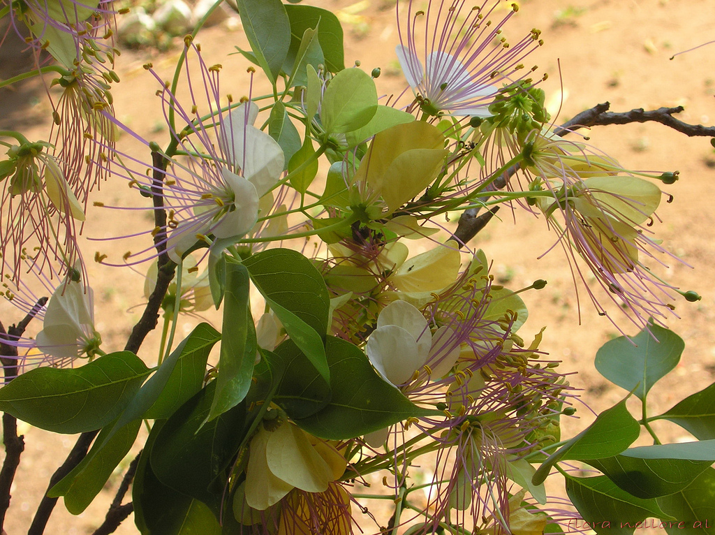 Family: Capparidaceae Distribution: Fond in forests on plains, also planted along tank bunds.Found in Indian subcontinent, China and Malaysia. 5-6m tall deciduous trees, Leaves 3 foliate, Leaf lets acute. Flowers large, polygamous, 3-4cm across, in terminal corymbs; Flowers green when very young, turns yellow soon after opening, white at maturity. All three colors an be seen in the image.Calyx and corolla 4 lobes each, sepals adnate to the lobed disk, petals long clawed, opens in bud stage, Stamens numerous, inserted at the base of gynophore, filaments pink colored, exerted, Ovary on a slender elongated gynophore, ovary 1-2 celled, stigma sessile; Fruit a berry. Stem bark is used in urinary infections. Photographed at Nellore, Local name:Ulemiri in Telugu. Reference: Flora of presidency of Madras by J.S Gamble, ENVIS, Flora of Nellore district By B.Suryanarayana &A.S Rao